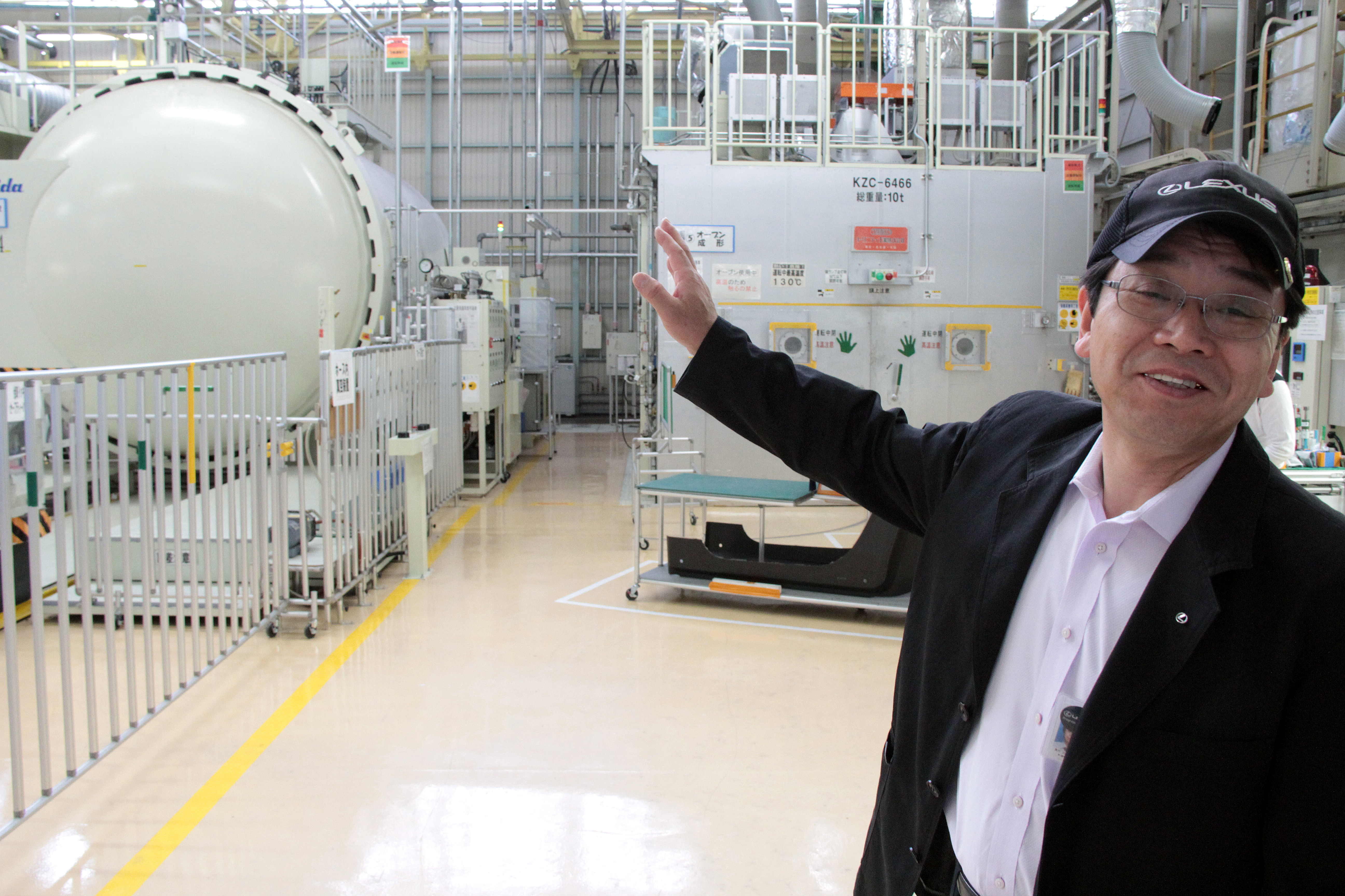 LFA Chief Engineer Haruhiko Tanahashi points at autoclave used to cure CFRP parts for LFA production in Motomachi plant - Picture by Bertel Schmitt